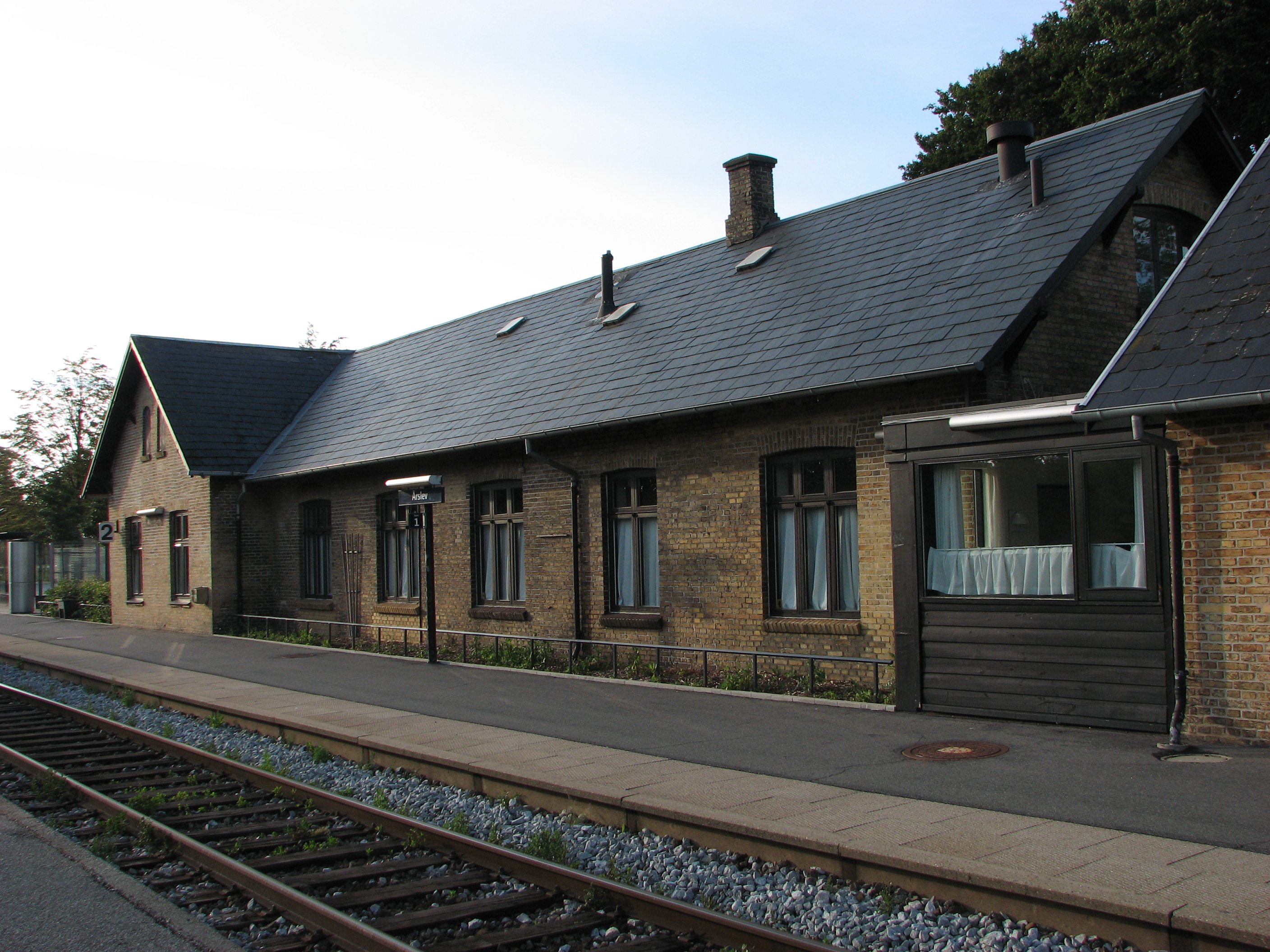 The railroad station in Aarslev, Funen, Denmark